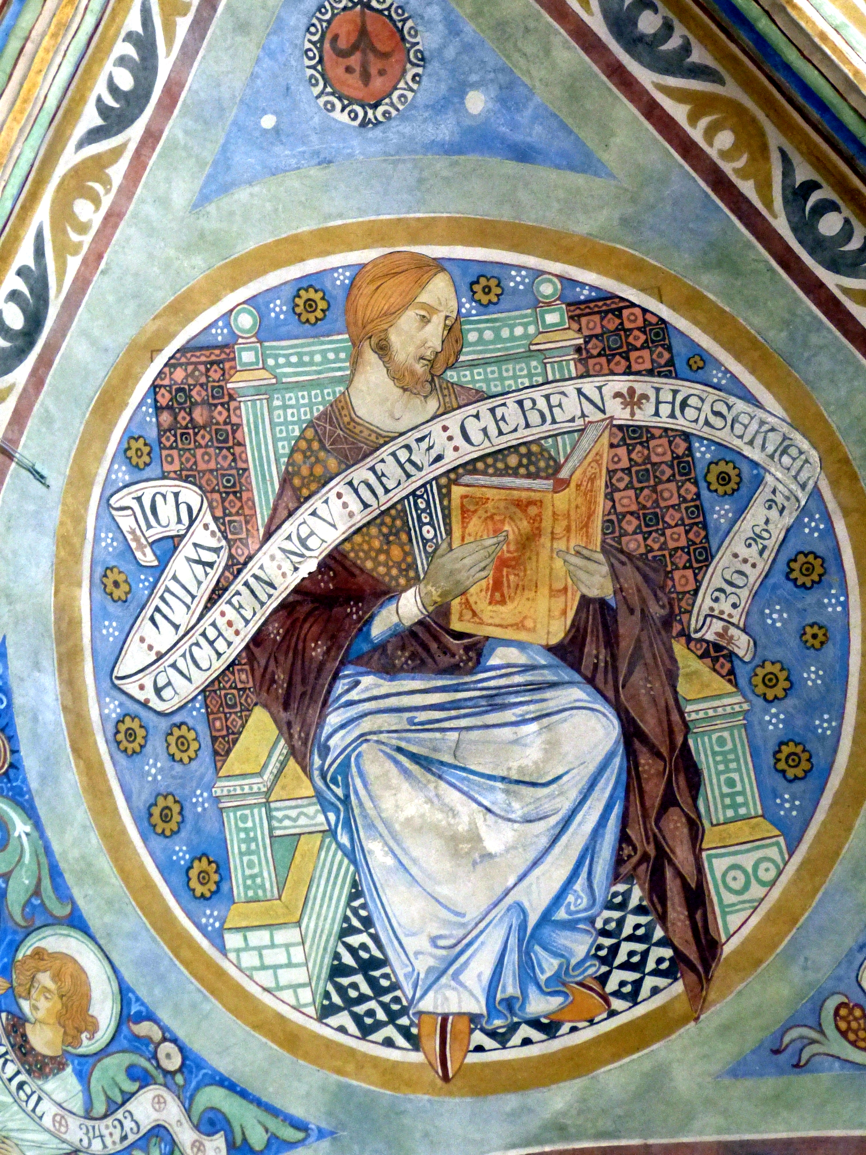 Bergen (Rügen island). Saint Mary church - choir: Frescos (12th century, restored 1896-1903) showing the biblical prophet Ezekiel with quotation: "I will give you a new heart" (Eze 36:26).